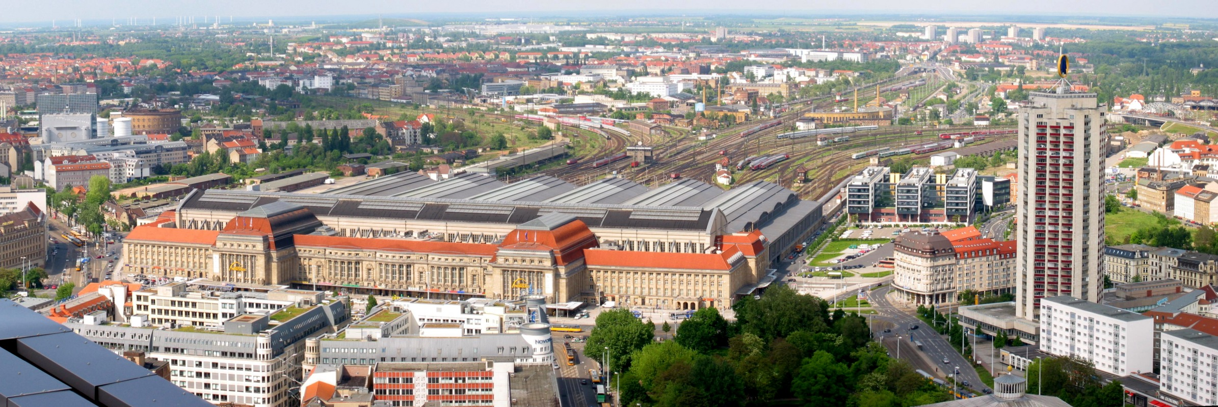 Leipzig central train station with its large track field in front on the right a park with a pool (Schwanenteich), in front of the park the roof of the opera house (Oper) on the right the high rise building Wintergartenhochhaus with the sign of Mustermesse (Leipzig fair), behind it the tracks to Engelsdorf – Riesa – Dresden (first German trunk line) and Stötteritz – Markkleeberg – Altenburg – Hof the tracks to the north lead to Dessau – Bitterfeld and Torgau – Falkenberg/Elster the line to the left leads to Halle and Plagwitz on the left behind the station an old goods station (Freiladebahnhof), behind it the unused gas holder Gasometer Nord